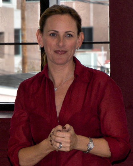 Marlee Matlin, actress and author at the 2007 Texas Book Festival, Austin, Texas, United States.